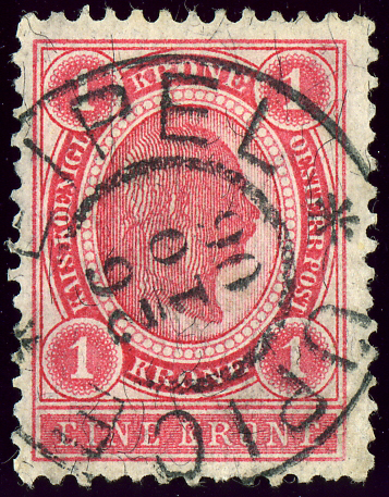 Austrian KK issue 1899, first 1 krone stamp, bilingual cancelled Eipel-Úpice in 1906, Bohemia